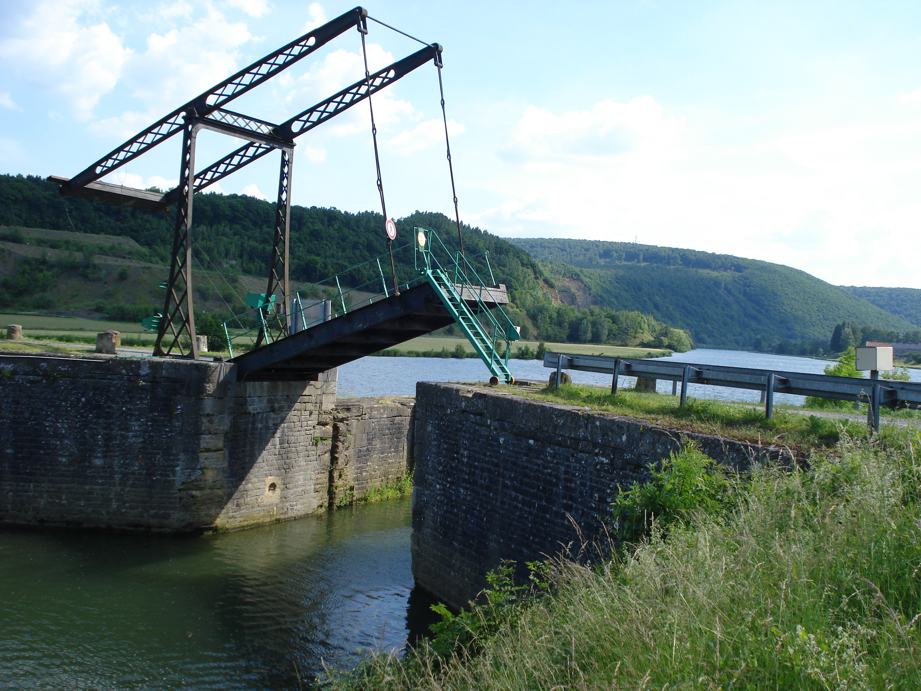 Moving Bridge at Aubrives (Ardennes, Fr)